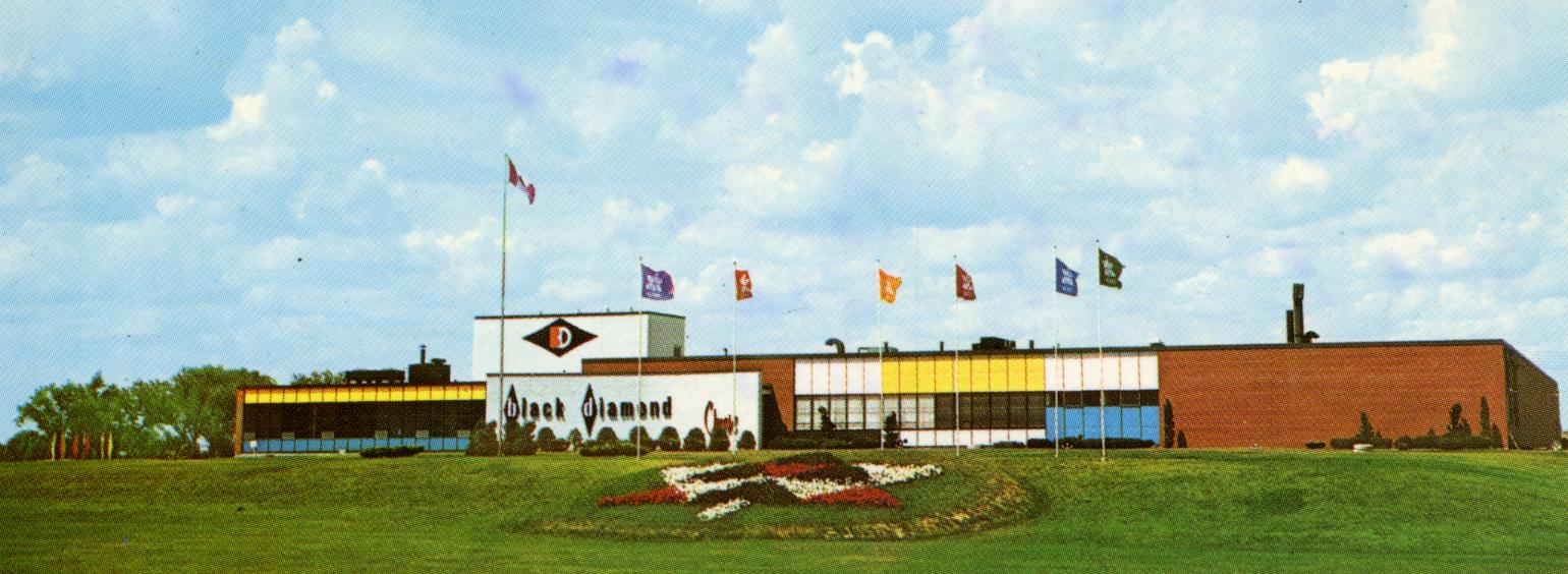 A postcard image of the Black Diamond Cheese Plant in Belleville, Ontario. The flowerbed is in the shape of the Canadian Centennial logo, a stylized maple leaf.